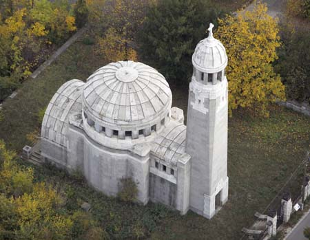 Torley_mauzoleum, Budapfok, Hungary, aerial photography